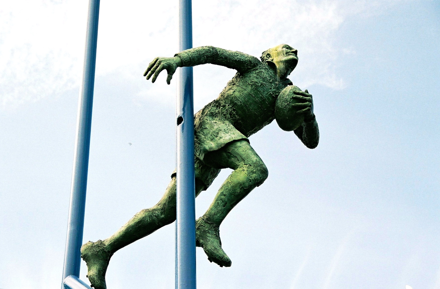 This statue of former Warrington Rugby League player Brian Bevan is located outside the Haliwell Jones Stadium in Warrington, Cheshire, England.